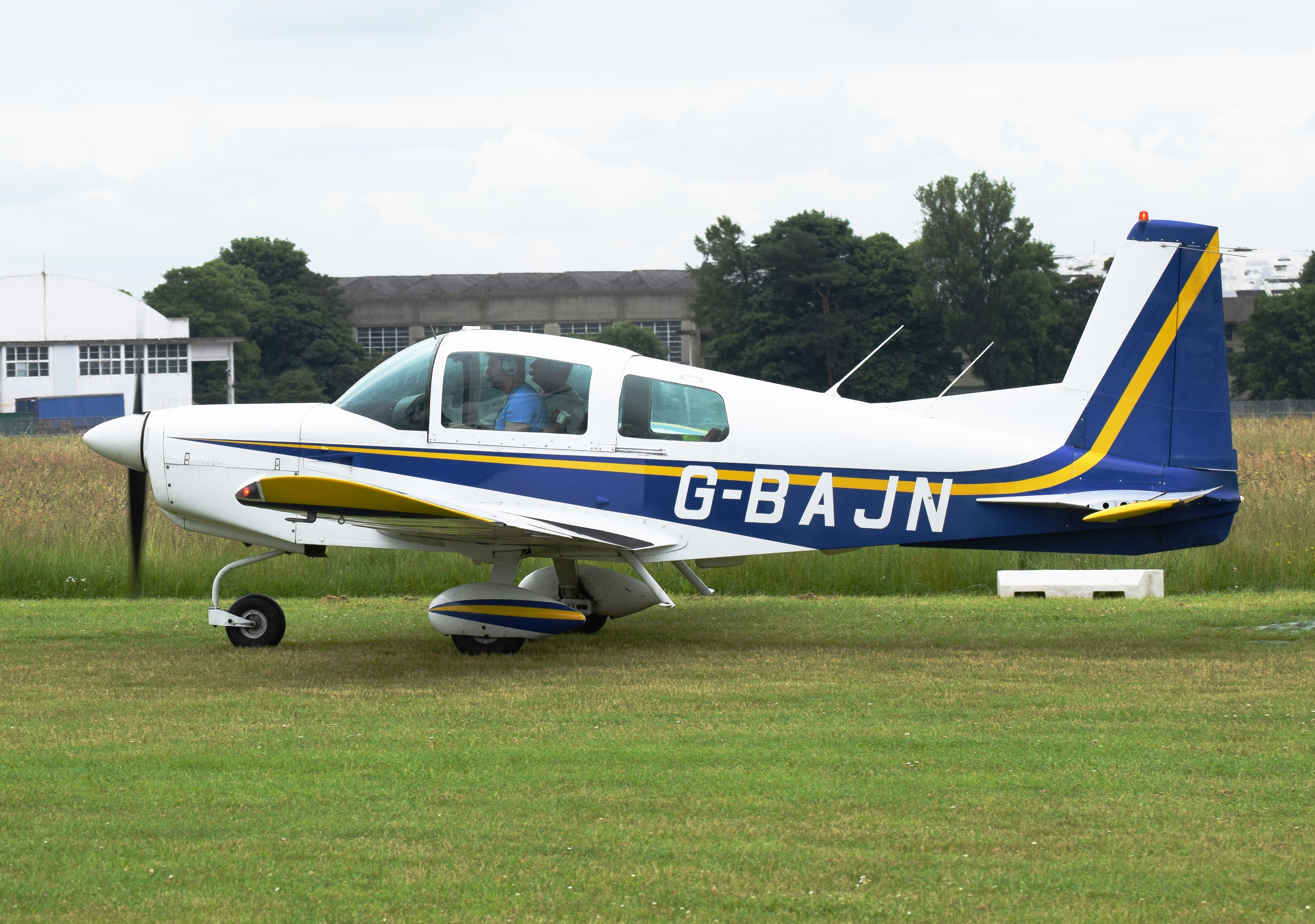 Grumman American AA-5 Traveler at Cotswold Airport, Gloucestershire, England. UK registration G-BAJN. Date of build 1972.